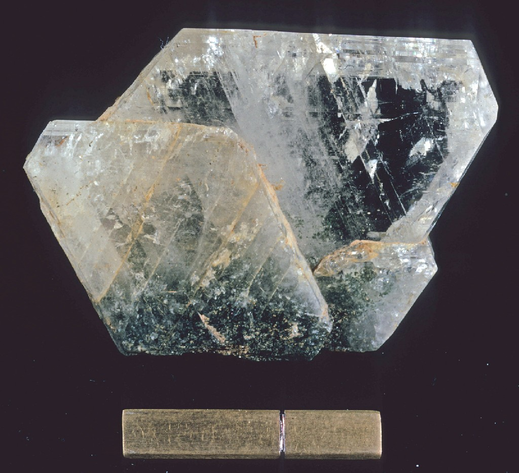 Albite Locality: Crete (Kriti) Island, Crete (Kriti) Department, Greece Specimen is from the Arthur Montgomery collection - Scale at bottom of image is one inch with a rule at one cm.